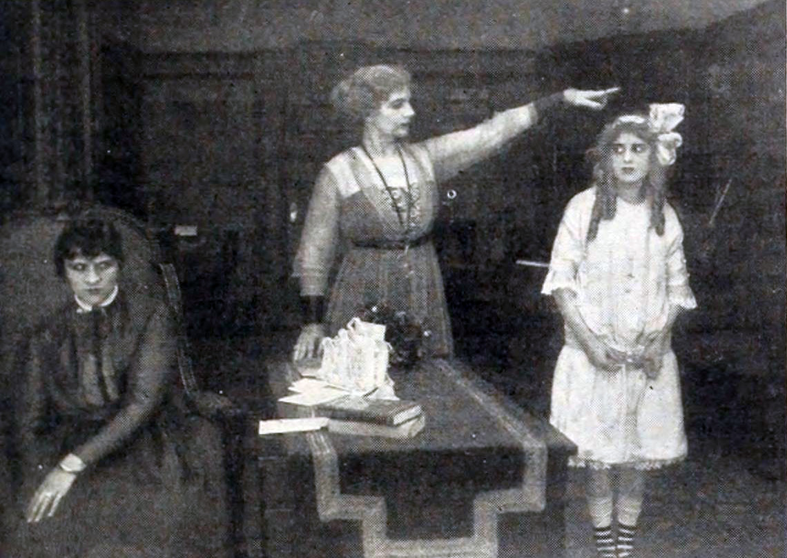 Illustration of an article in The Moving Picture World for the film The Love Girl (1916).